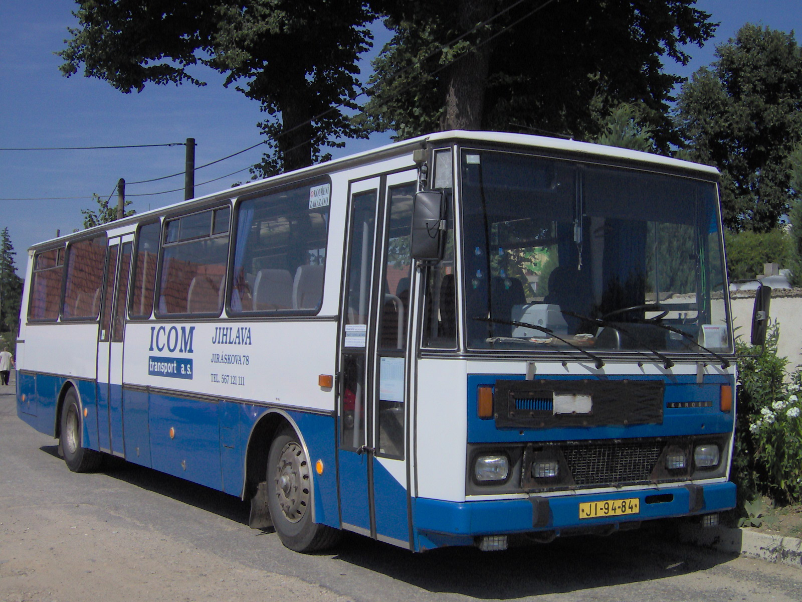 Karosa C 735 bus in Batelov